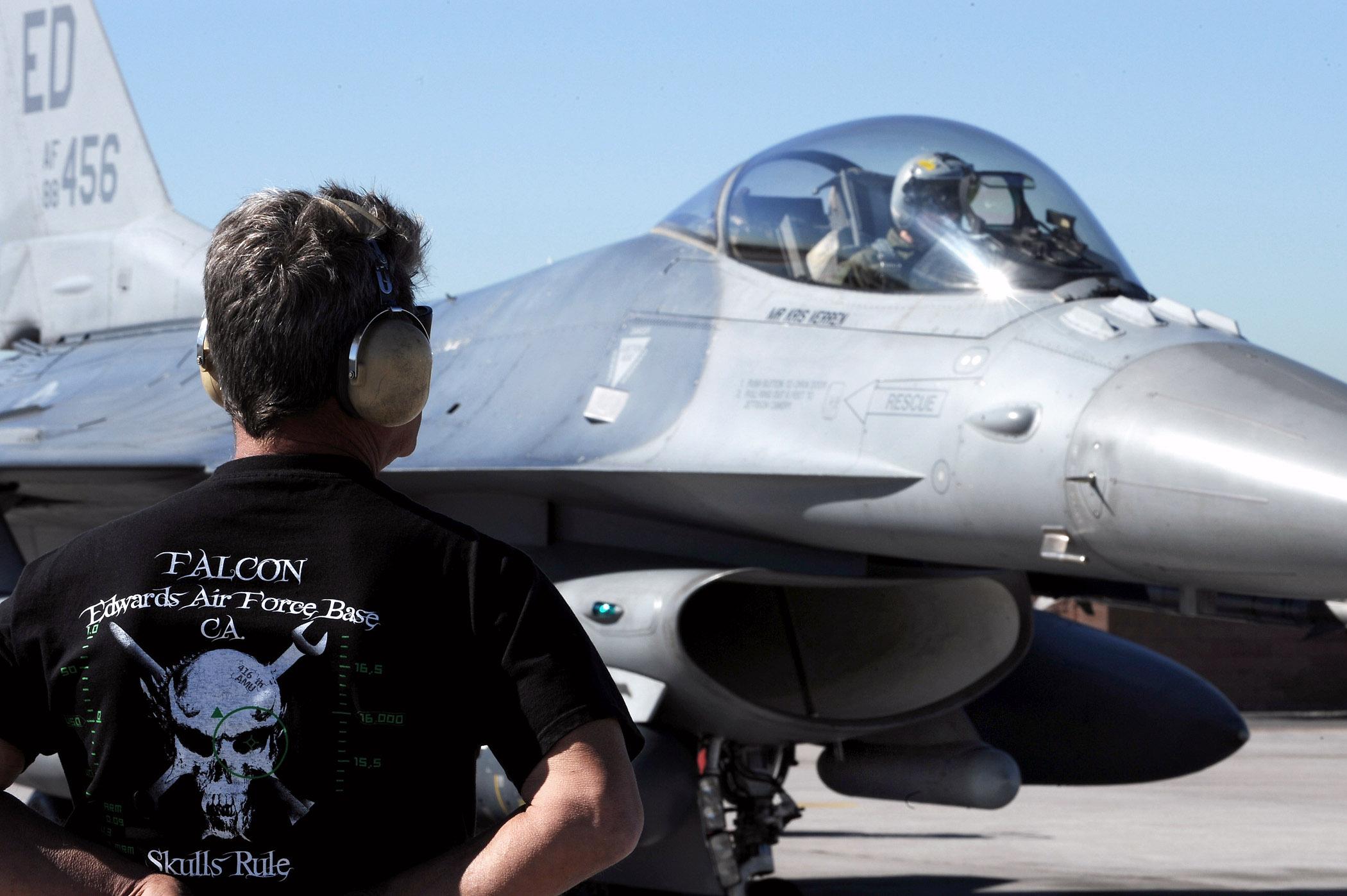 Kenny Booth prepares to taxi an F-16 Fighting Falcon in support of Exercise Red Flag 09-2 on 4 February at Nellis Air Force Base, Nevada. Mr. Booth is a crew chief assigned to the 416th Flight Test Squadron at Edwards Air Force Base, California. This is the first time the 416th Flight Test Squadron has participated in a Red Flag exercise.